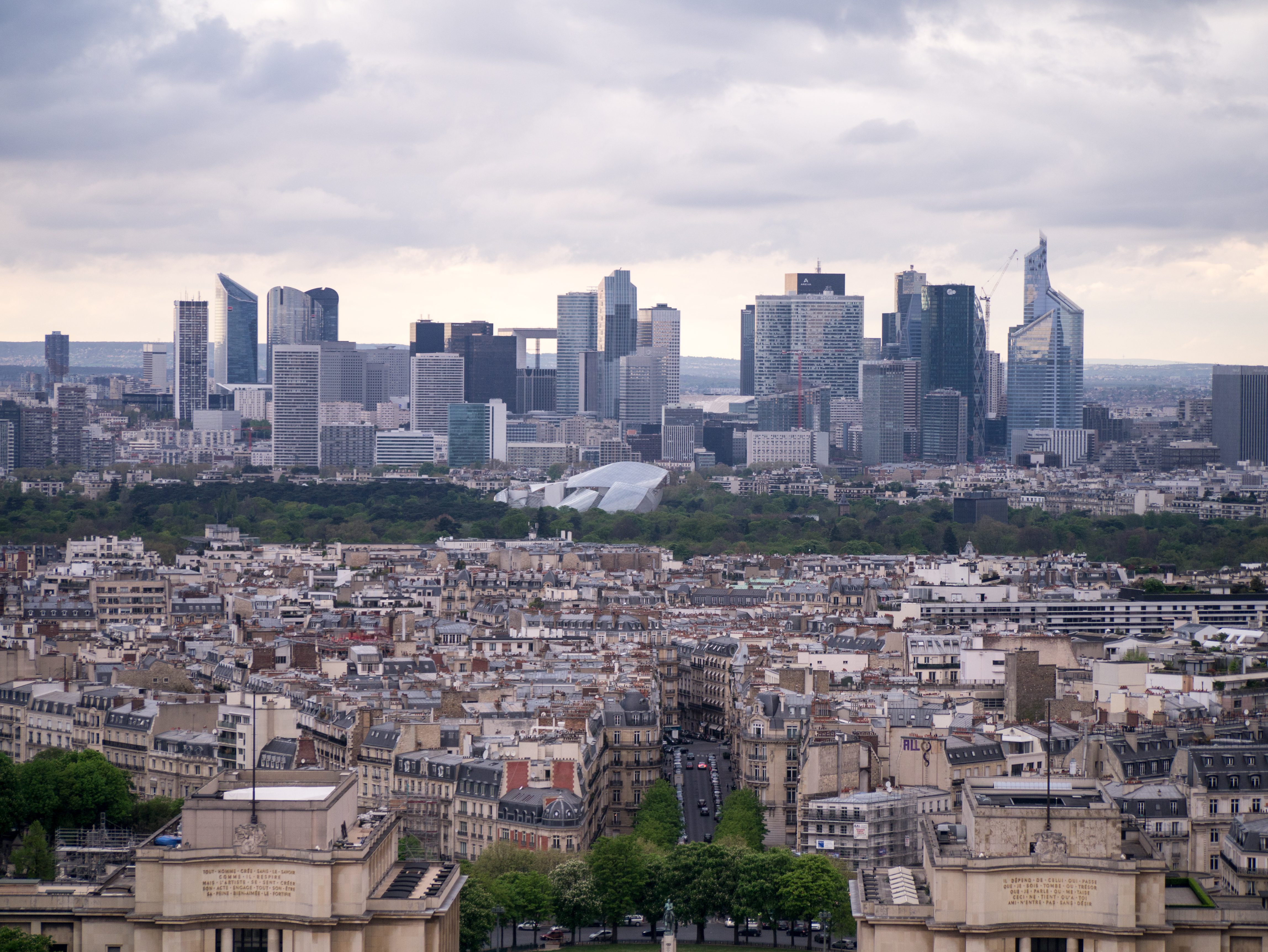 Views from the Eiffel Tower